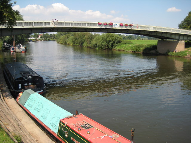 River bridge, Upton-upon-Severn, Worcestershire, England. This steel bridge carrying the A4101 over the River Severn at Upton-upon-Severn replaced an earlier bridge downstream in 1940.